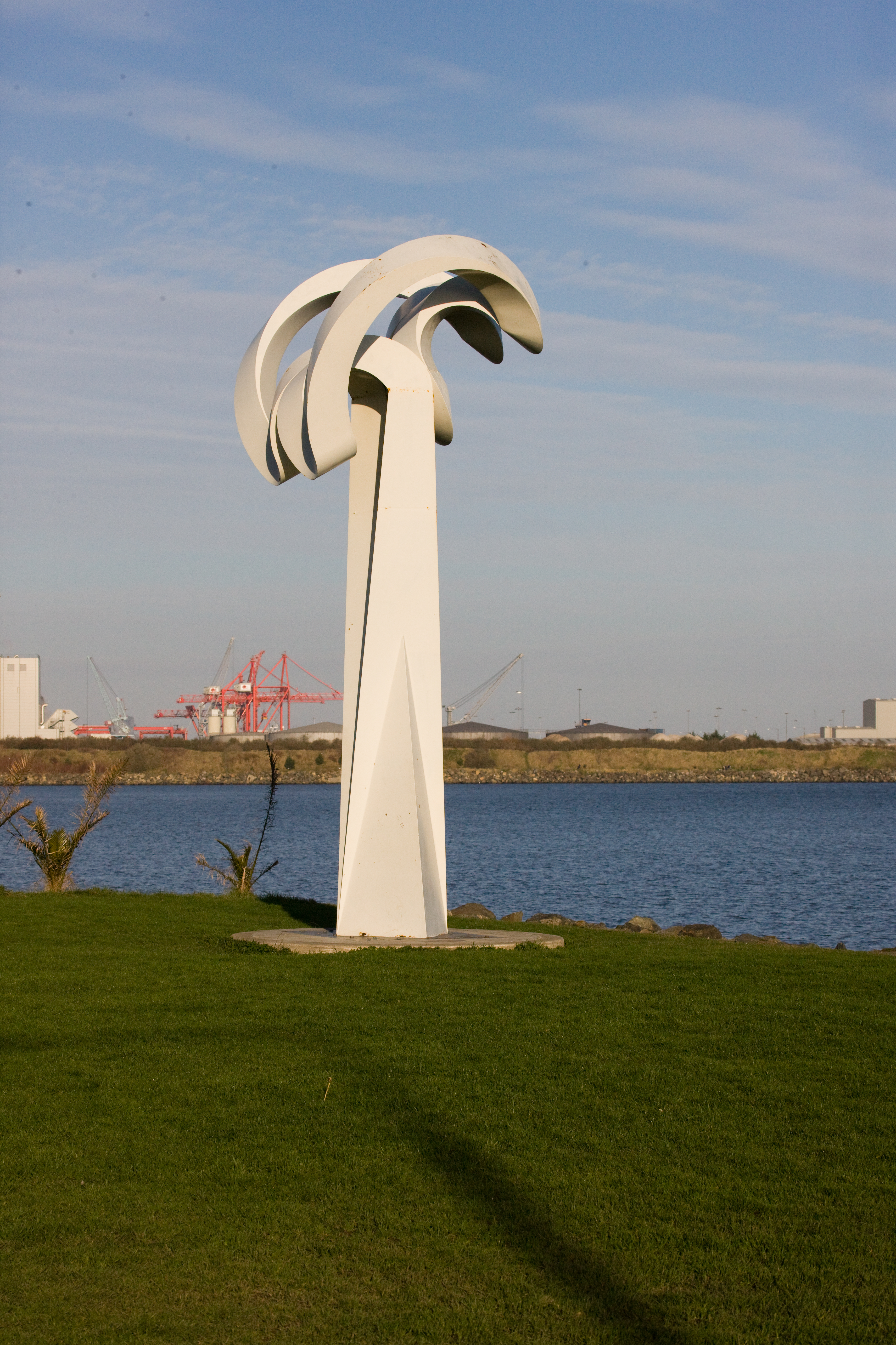 November 2002 – Unveiling Ceremony in Dublin of Sculpture by Sebastián Erected on the seafront at Sandymount, this monumental sculpture by the Mexican artist Sebastián was unveiled by the Mexican president Vicente Fox and the Lord Mayor of Dublin, Dermot Lacey, on the 13th November 2002. Attended by high-ranking city authorities and special guests, this was the first work by a Mexican artist to be placed permanently in Dublin, symbolizing the friendship between the Irish and Mexican people.